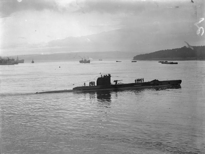 The Royal Navy during the Second World War The French submarine FFS CURIE starts out from Holy Loch on her first big patrol. She is the first British built submarine to be handed over to the French Navy.